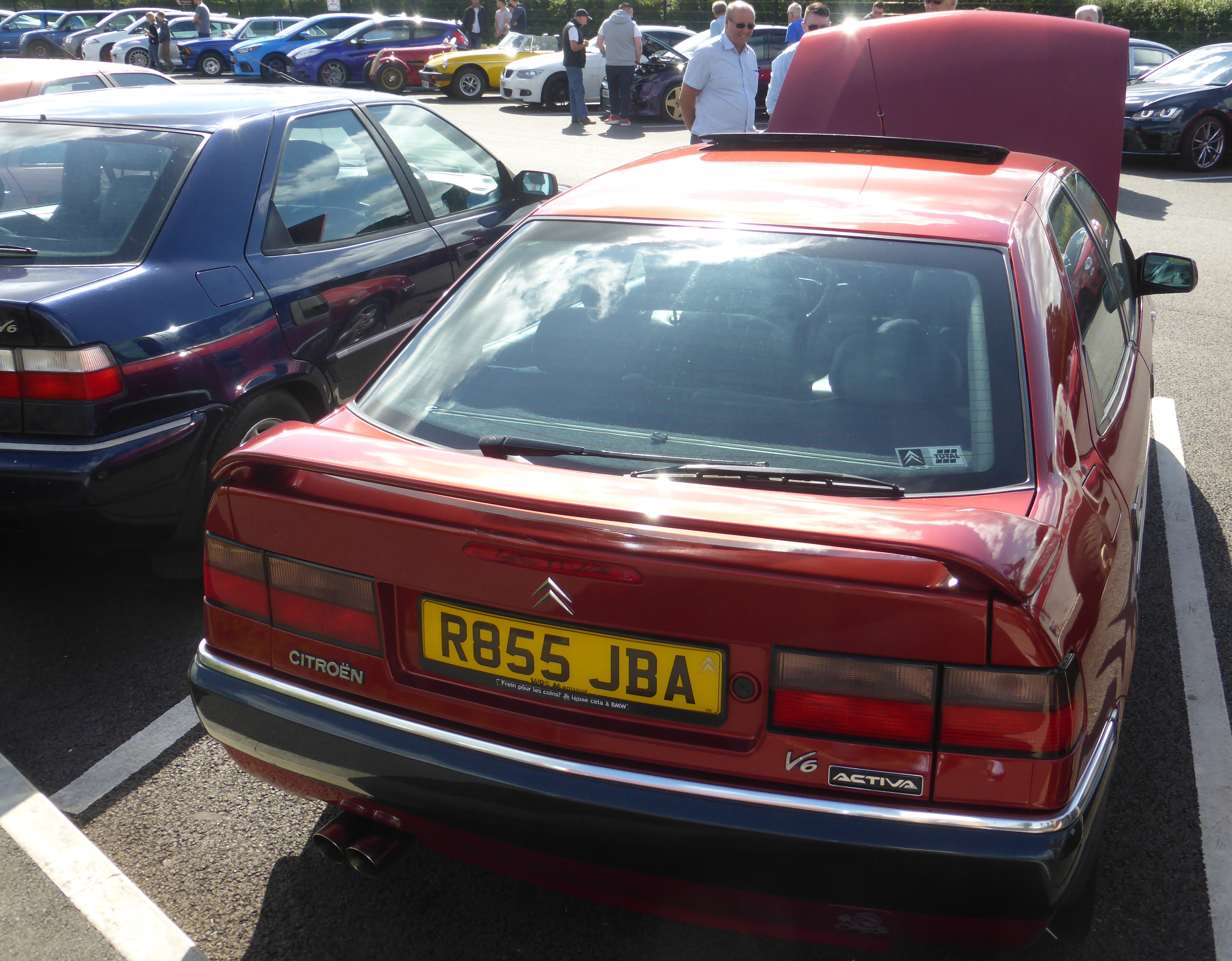 Haynes International Motor Museum Breakfast Club